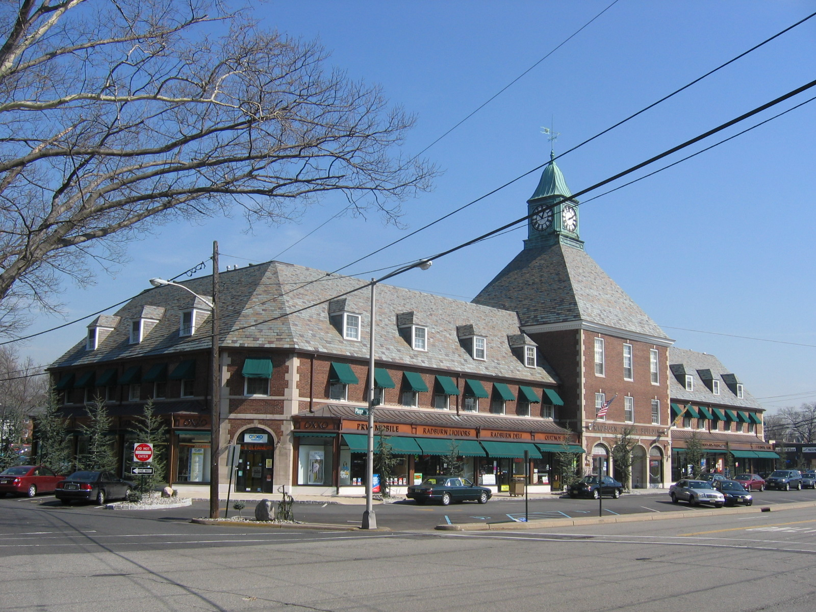 Radburn shopping center (Radburn Plaza Building?), near Radburn station, Fair Lawn.